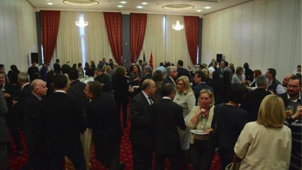 Greek community of Skopje, Former Yugoslav republic of Mac.